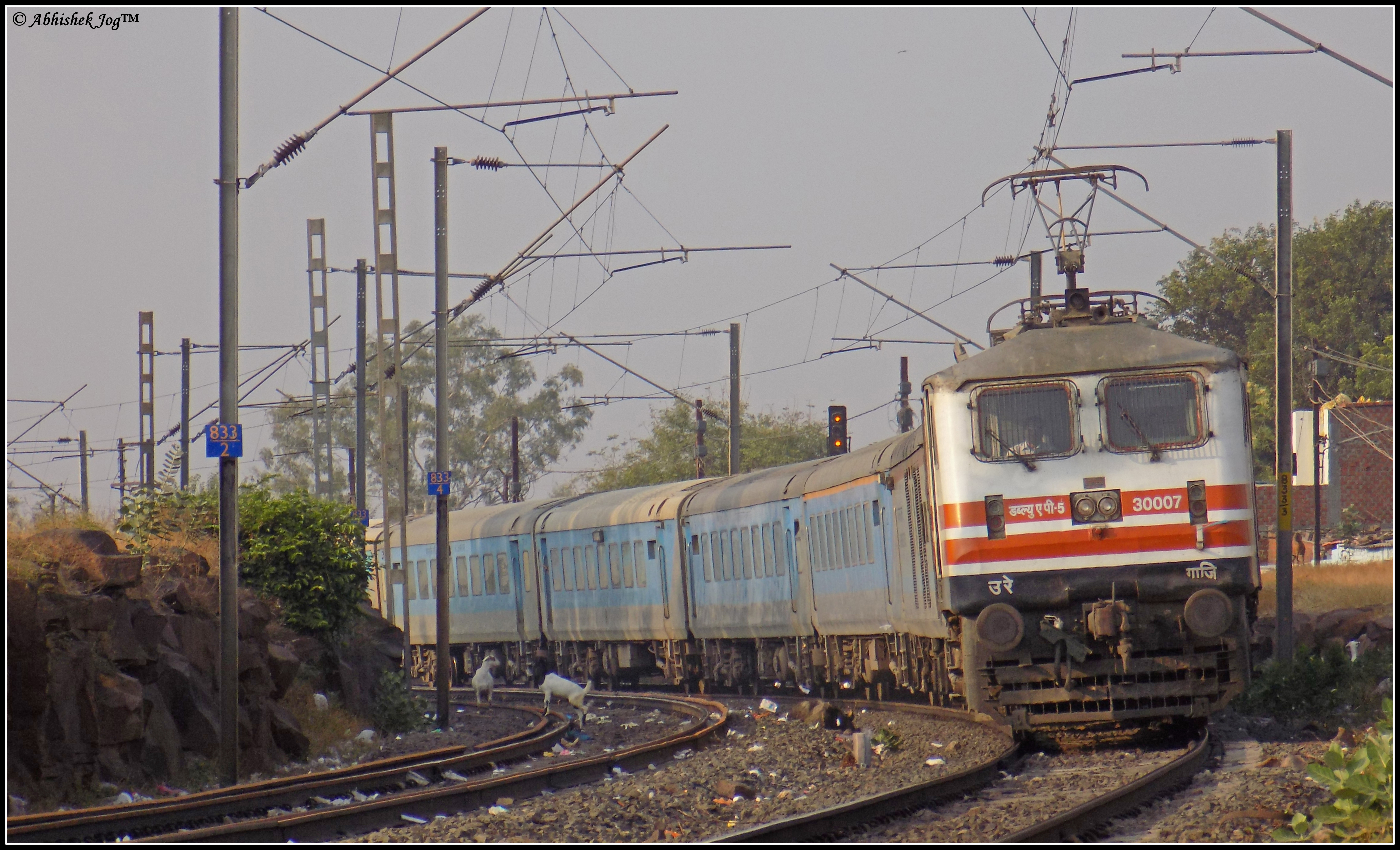 "JAMES BOND" GZB WAP-5 #30007 belts towards HBJ @ good speed charging "KING" 12002 NDLS-HBJ Bhopal Shatabdi.